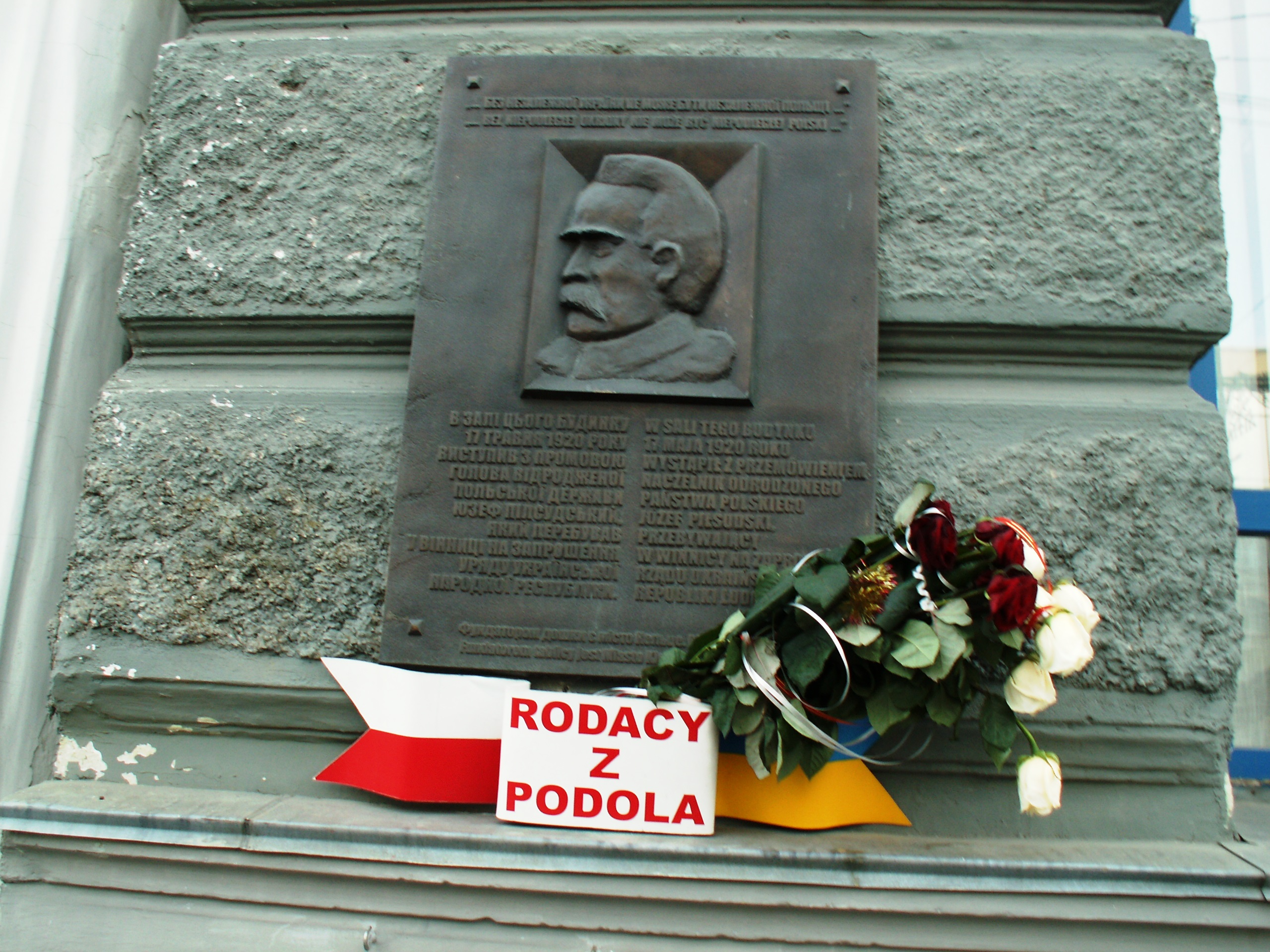 Vinnytsia, Soborna Str. 67. Pilsudski Mevorial Plaque